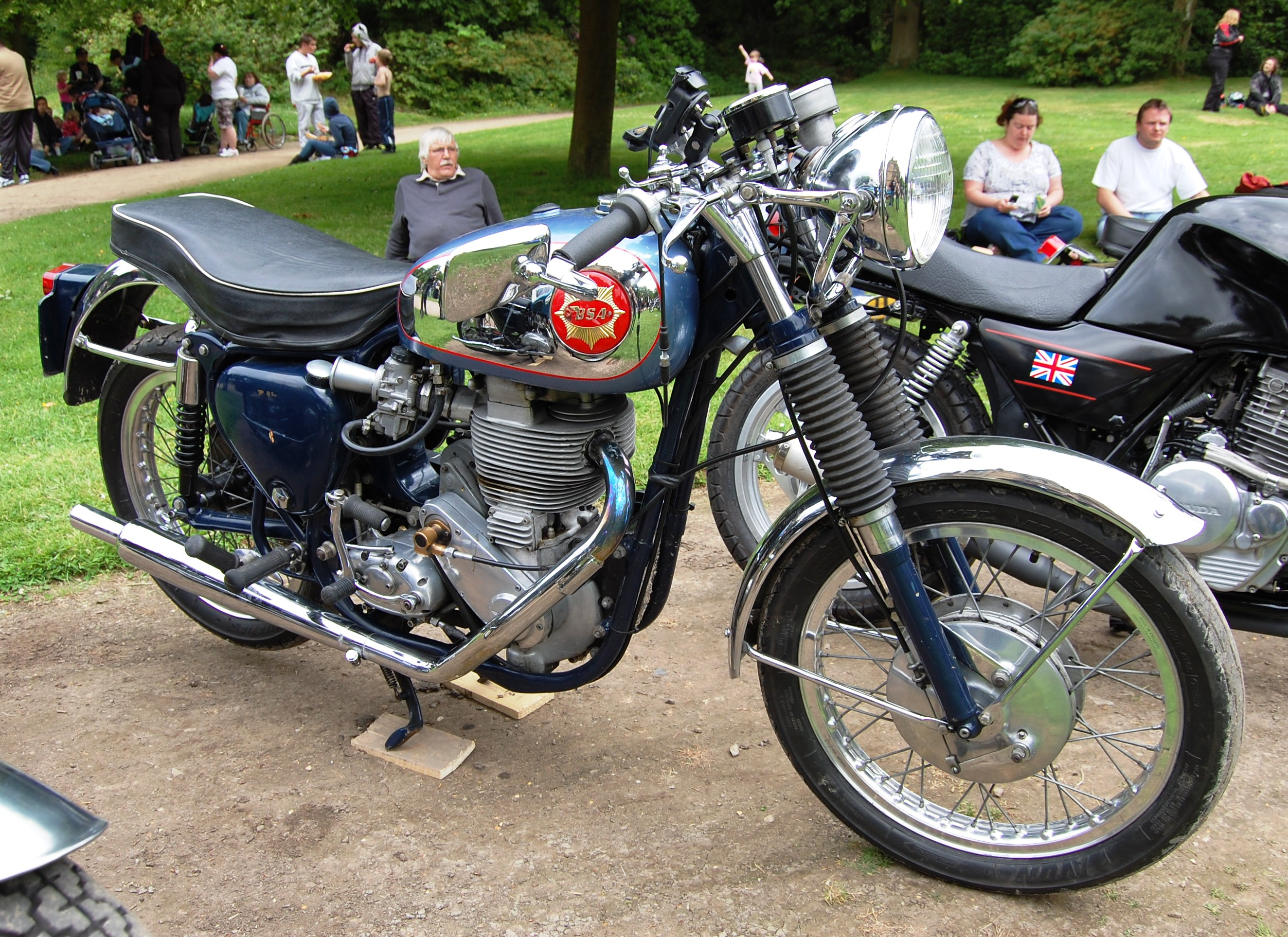 The BSA Gold Star, (1938–1963), is a 350 cc and 500 cc 4-stroke production motorcycle that gained its reputation for being one of the fastest machines of the 1950s. These motorcycles were popular for their high performance. Besides being hand built, with many optional performance modifications available, they came from the factory with documented dynamometer test results, allowing the new owner to see the horsepower produced.